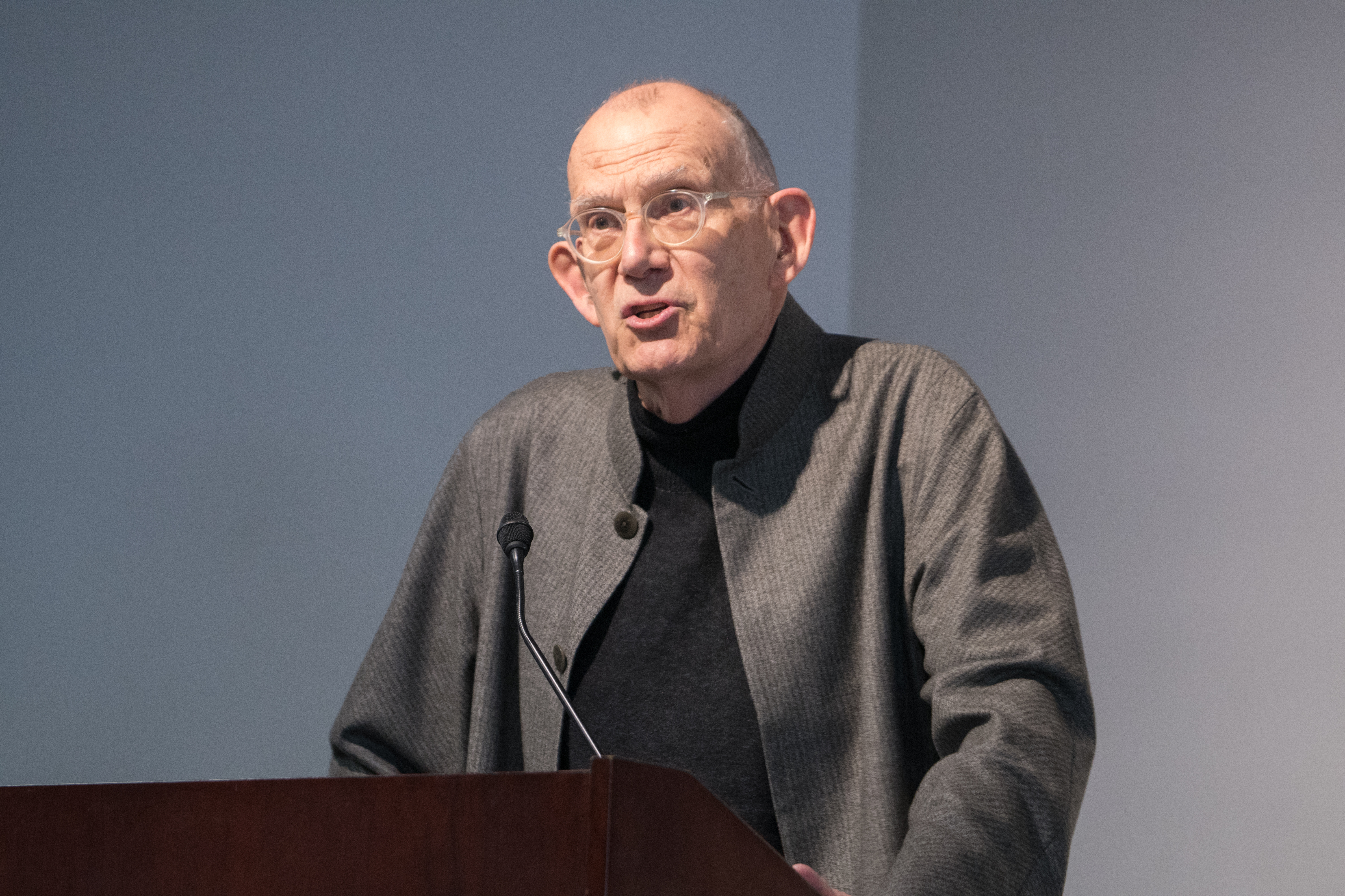 T. M. Scanlon at the Edmond J. Safra Center for Ethics.